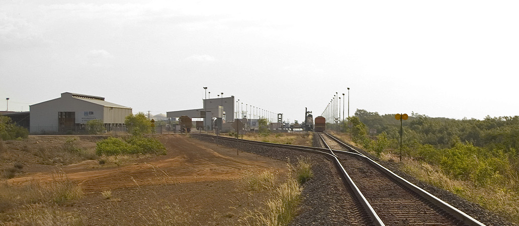 Berrimah rail maintenance depot and freight terminal (Darwin, Northern Territory) from level crossing